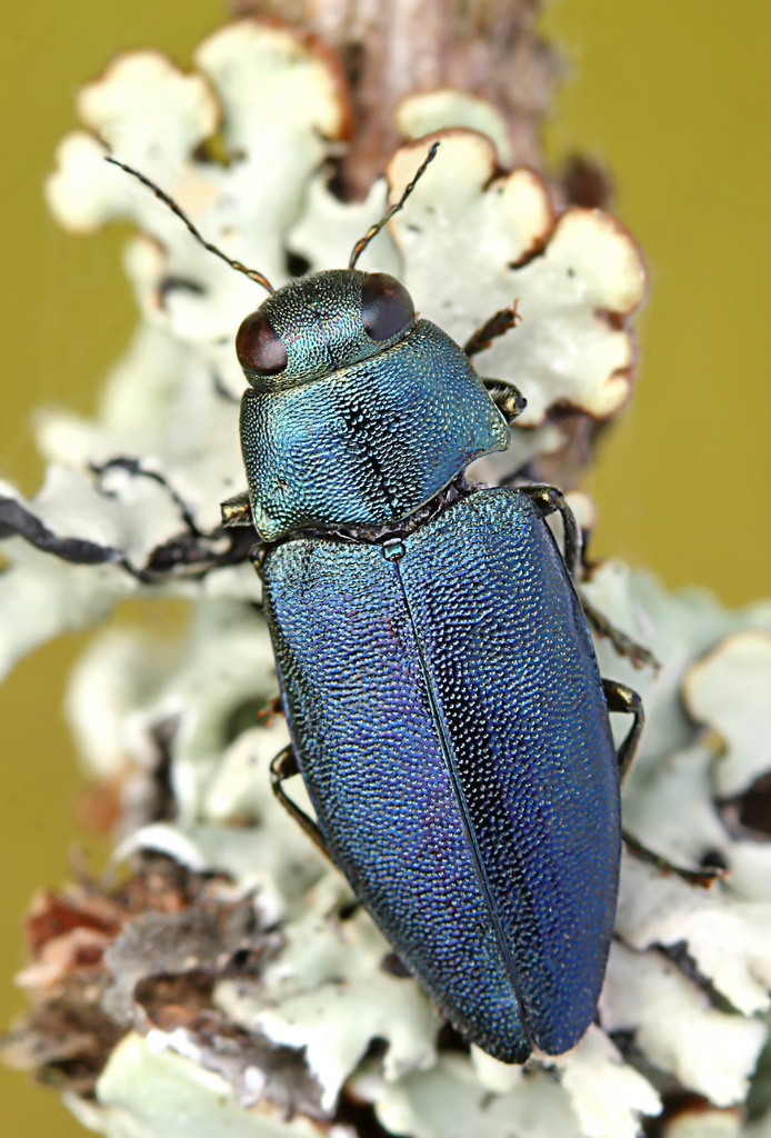 Wood Boring Beetle - Phaenops cyanea